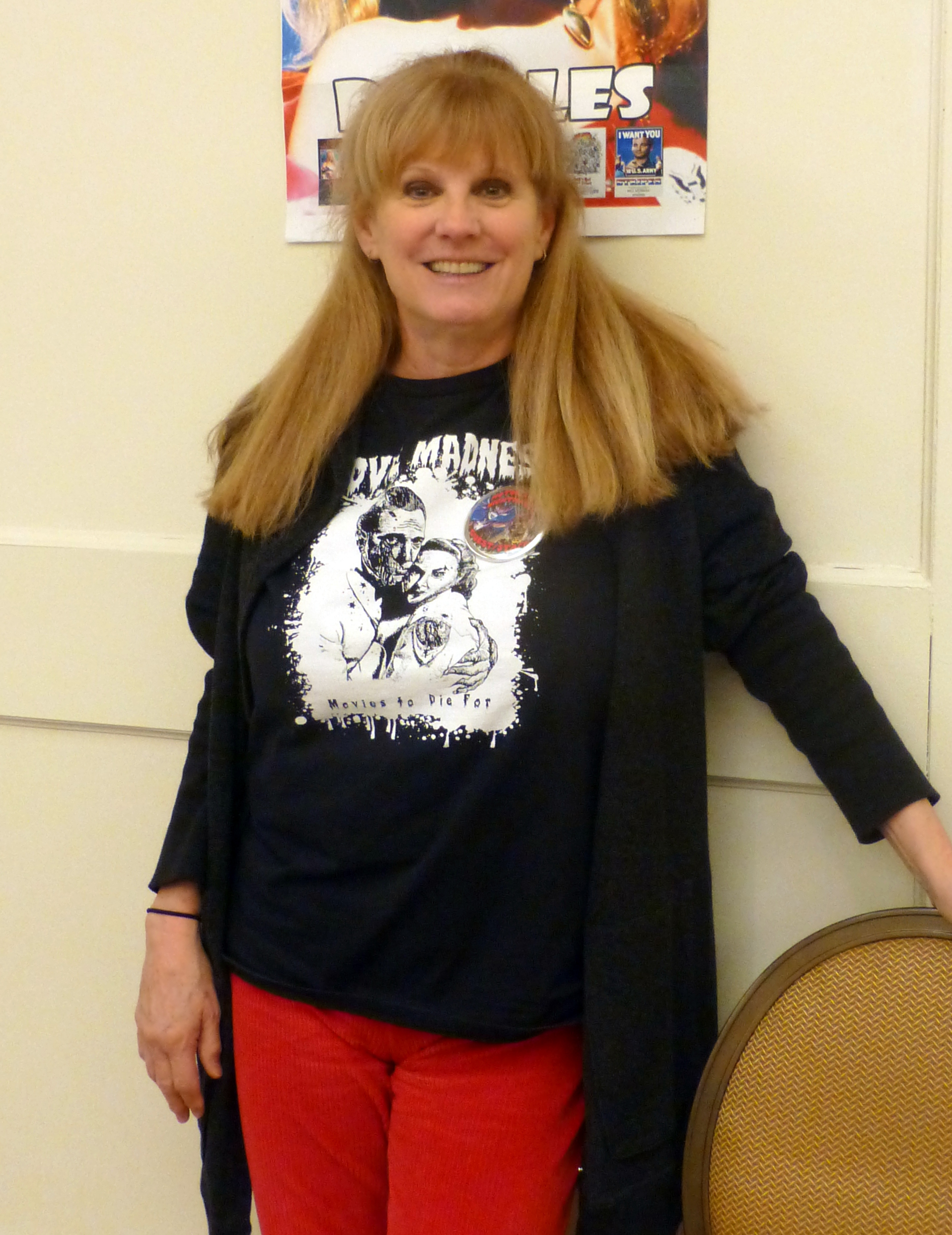 PJ Soles. Loved getting to talk with her about Stripes and Bill Murray. I watch it all the time when it's on cable.